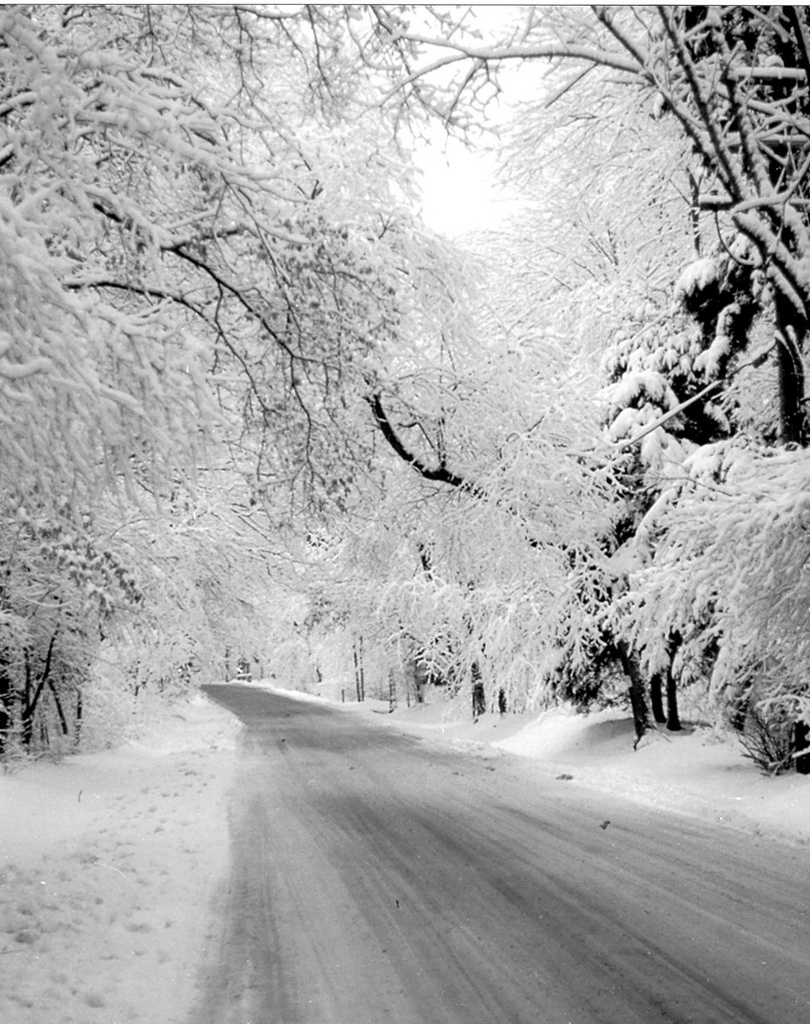 A snowy road at Linn Run State Park in Westmoreland County, Pennsylvania